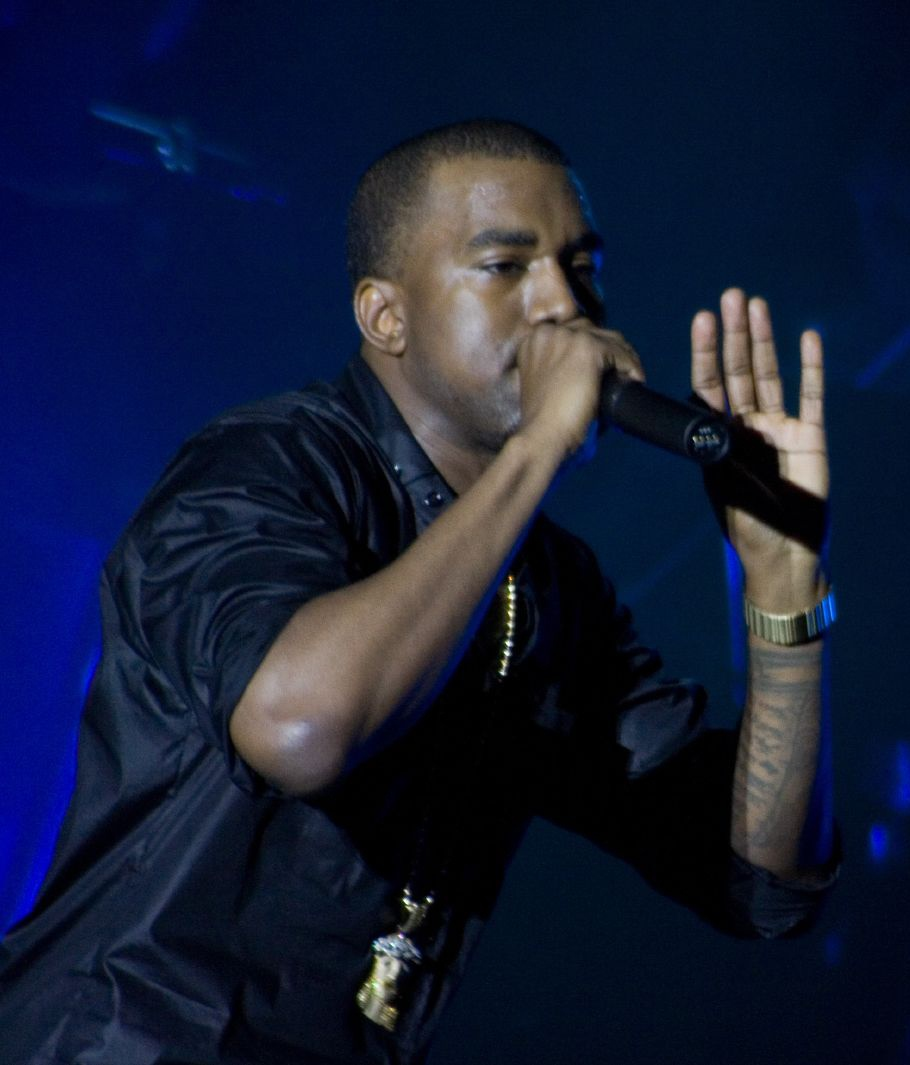 Kanye West performing at the Stockholm Jazz Festival on July 20, 2006 in Stockholm, Sweden.